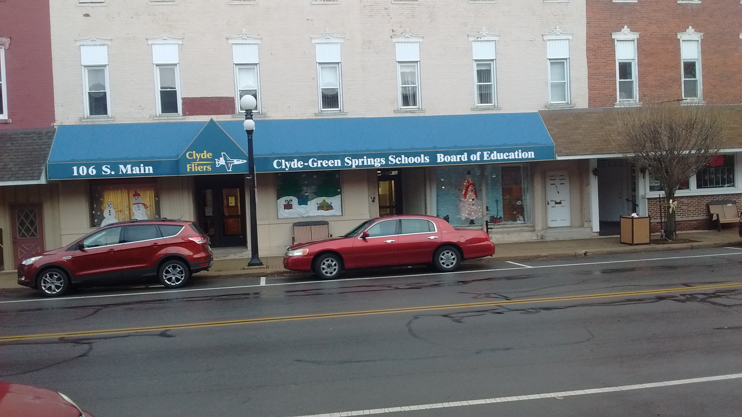 Board of education office.